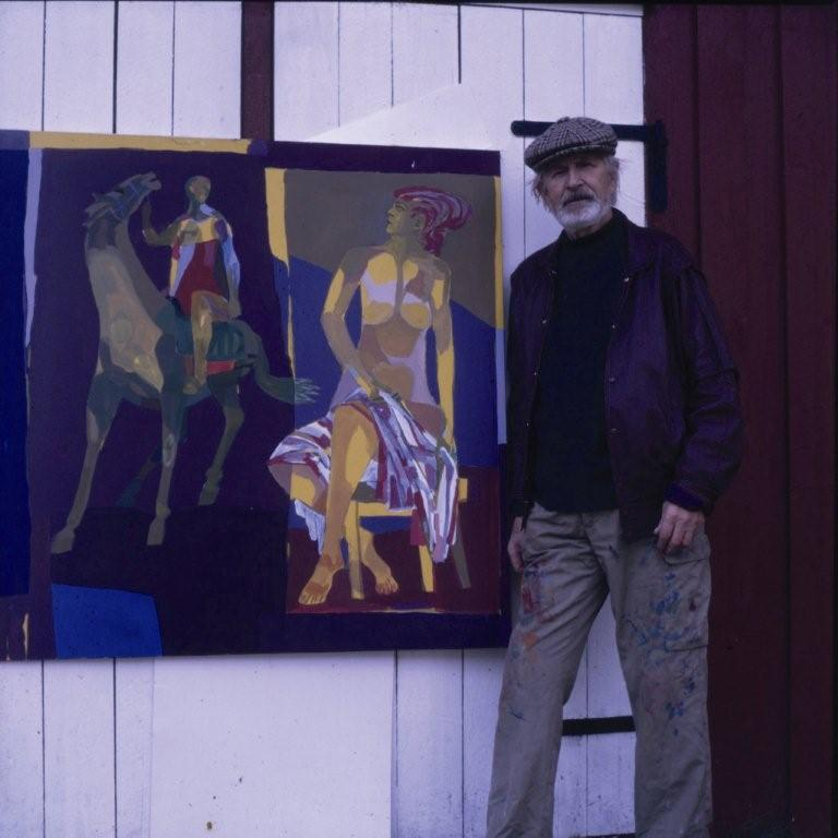 Portrait of norwegian painter and sculptor Jørleif Uthaug (1911-90) 1988 with his own work "Budbringeren" ("The messenger")